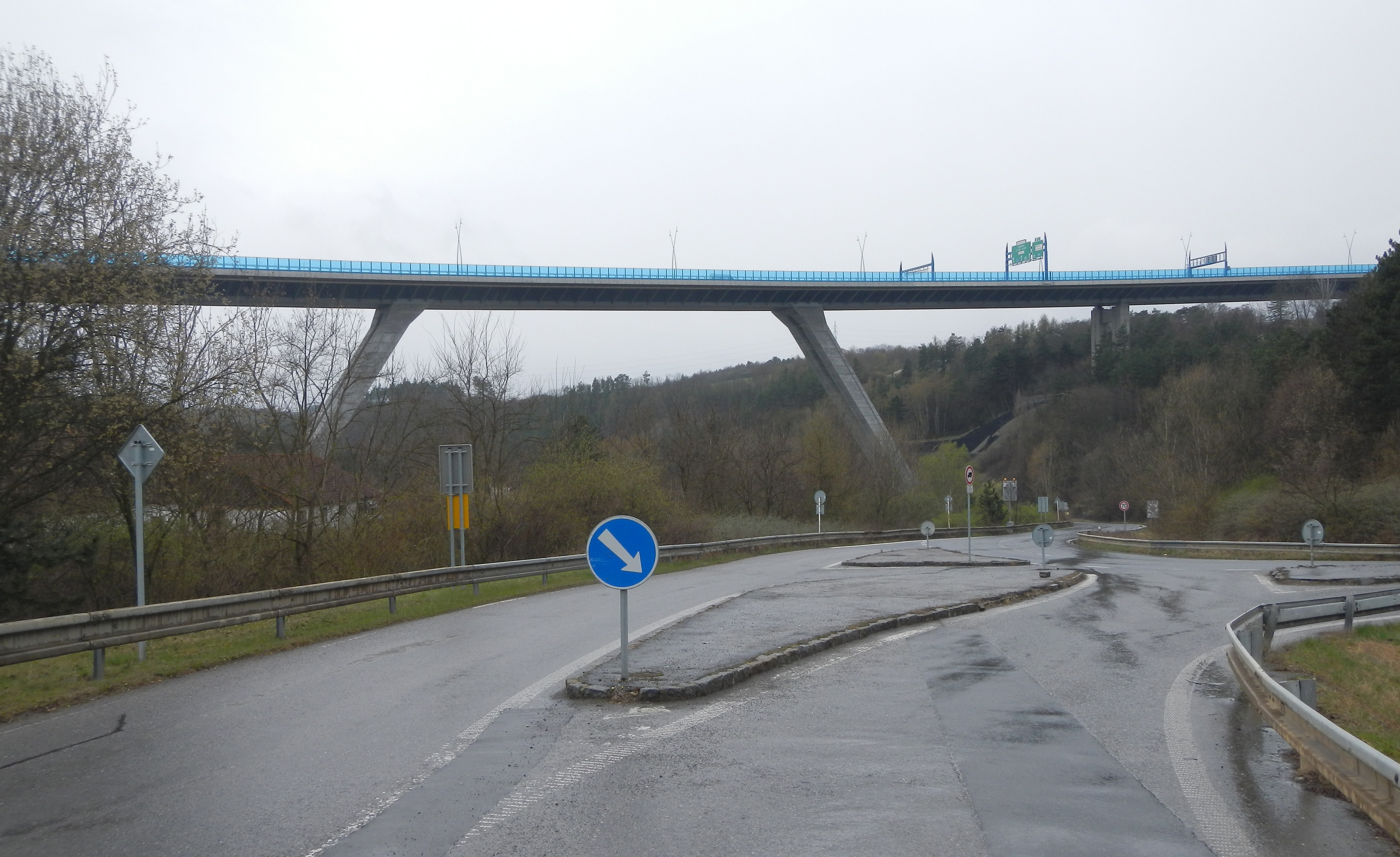 Picture of Lochkov bridge.